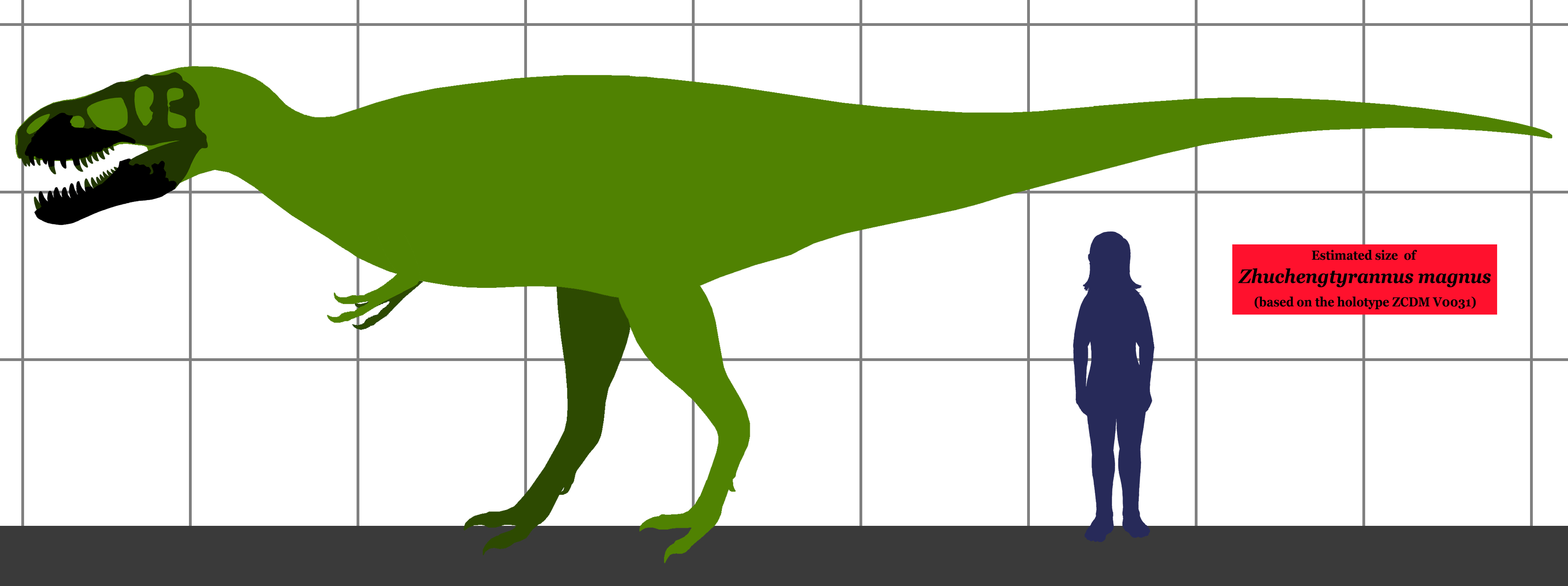 Estimated size of the theropod dinosaur Zhuchengtyrannus[1] References ↑ Based on the size of the holotype material, with body proportions based on other tyrannosaurids (like Tyrannosaurus rex).